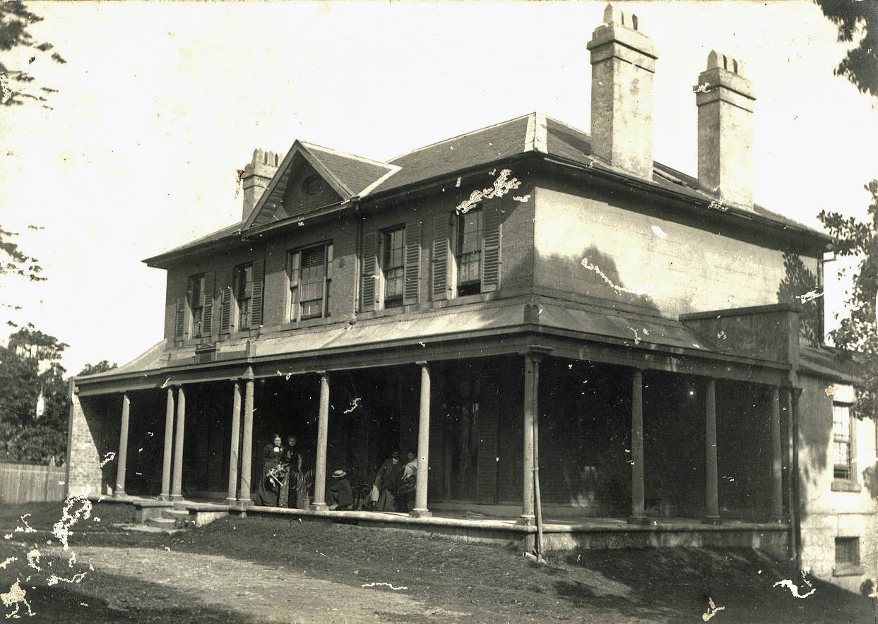 Stanmore House 88 Enmore Road Enmore NSW c1900. This house is listed on the New South Wales State Heritage Register